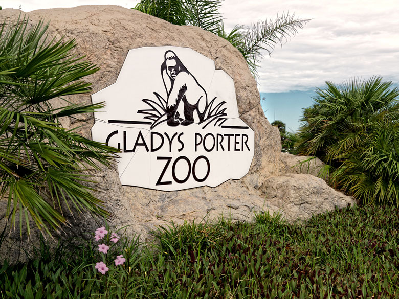 This picture shows the Gladys Porter Zoo Sign